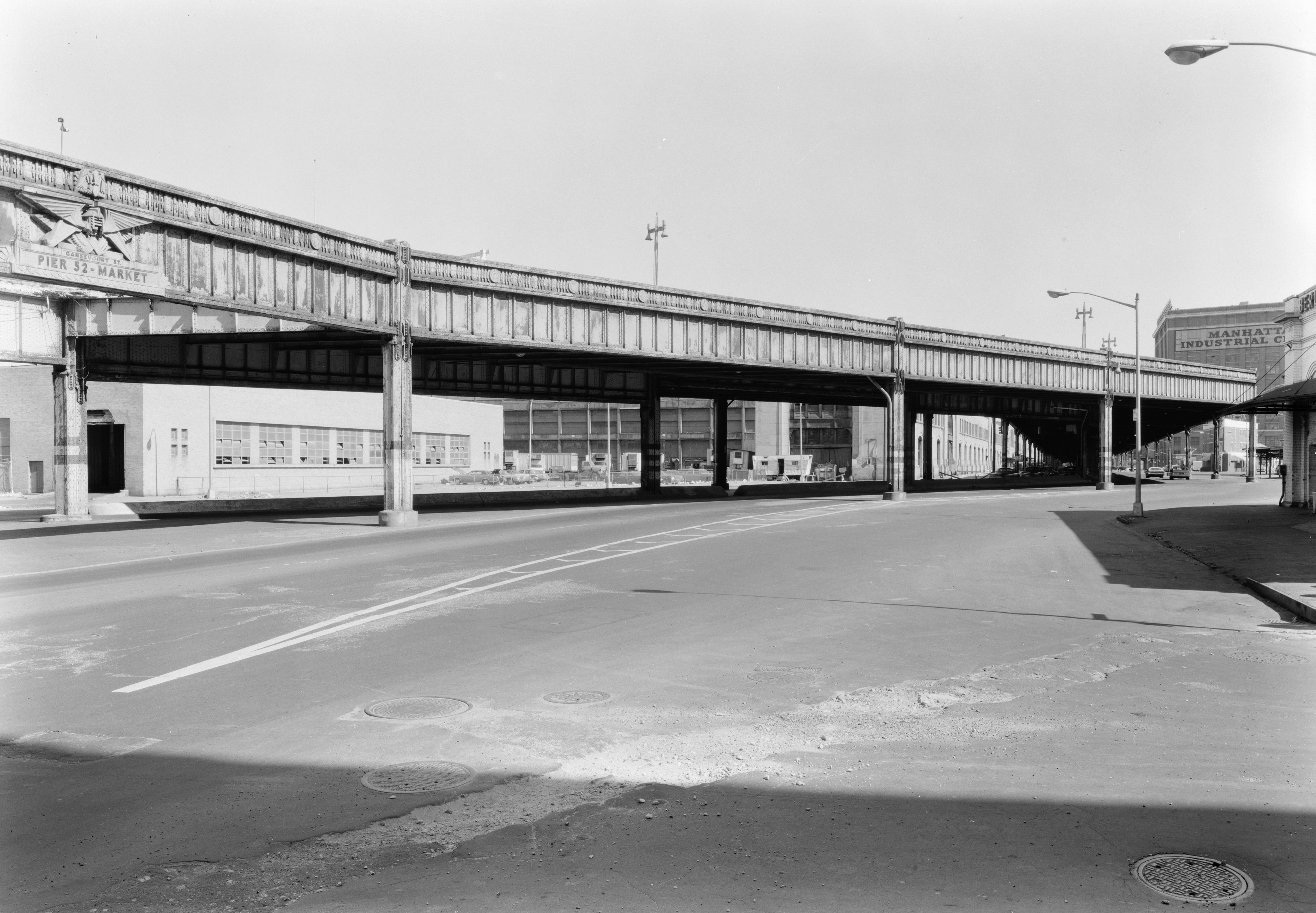 West Side Highway, New York at Gansevoort St. looking NW. At left, on the highway structure, a sign says "Gansevoort St. - Pier 52 - Market".